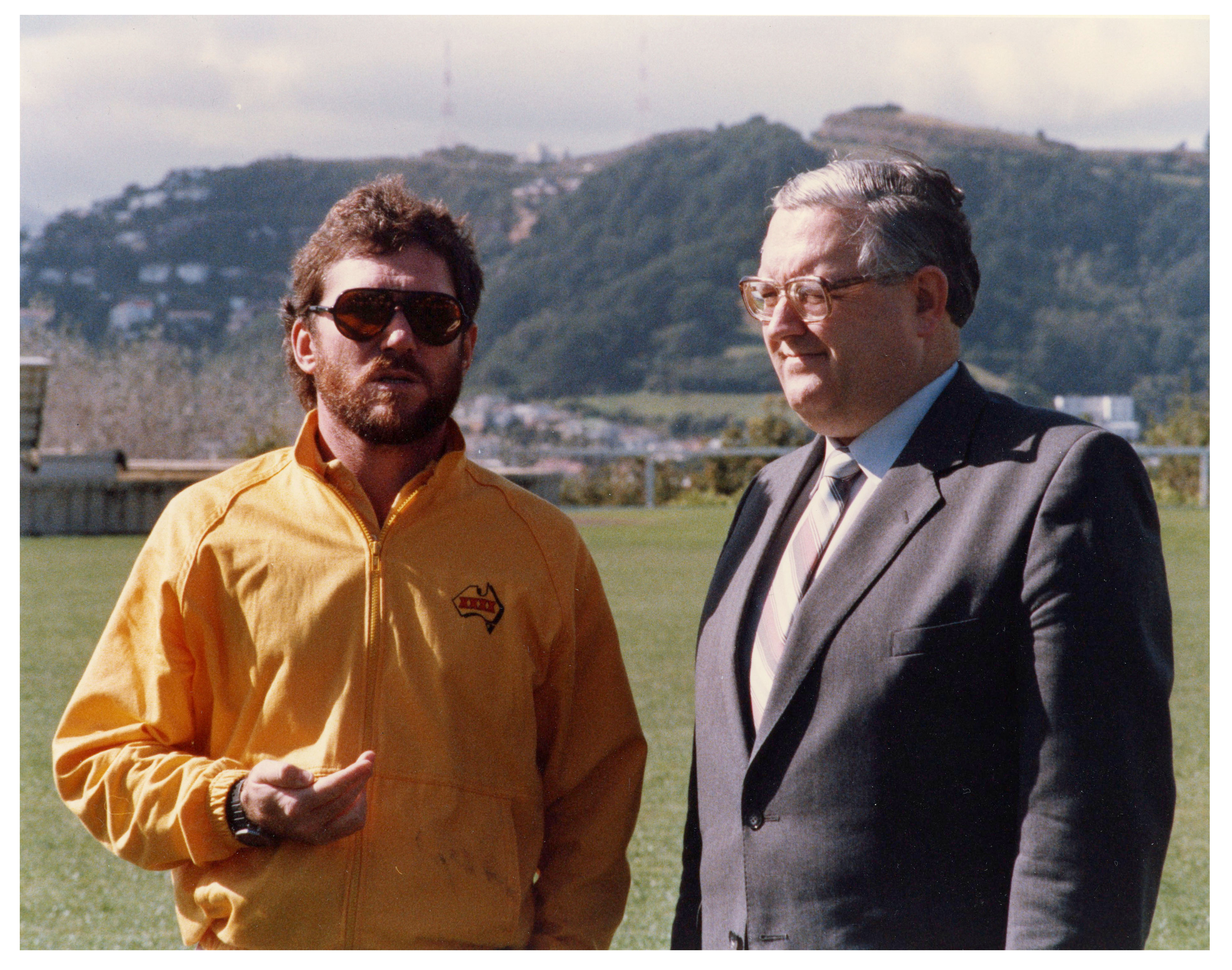 In 1986 a group of Australian Cricket stars visited Victoria University Cricket Club in Wellington to promote the installation of an artificial cricket pitch at Kelburn Park. The park is owned by Wellington City Council but has been the home of Victoria University Cricket Club since 1906. The stars were Allan Border, Craig McDermott, Bruce Reid and Geoff Marsh. We assume that the pitch was sponsored by New Zealand Post as there are images of the pitch with the New Zealand Post logo applied. Pictured here we have Allan Border and the Postmaster General Jonathan Hunt. Allan Border played 156 tests and 273 ODI’s for Australia. He made his last international appearance in 1994. Jonathan Hunt was a Labour Party MP from 1966 to 2005. At various times, he served as Minister of Telecommunications and Broadcasting, Minister of Tourism, Minister of Housing, and Postmaster General. This image is from a series of photos transferred by New Zealand Post to Archives New Zealand. The collection was part of the Post Office Museum and Archives. This image and other items from the series can be seen in the Wellington Reading Room of Archives New Zealand. For further enquiries please File Reference: AAME 8106 W5603 125 11/10/111 Throughout the Cricket World Cup 2015, Archives New Zealand will be highlighting a selection of cricket related records which are found in our holdings. For further updates on our cricket posts and other streams follow us on Twitter